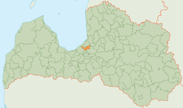 Map of Garkalne